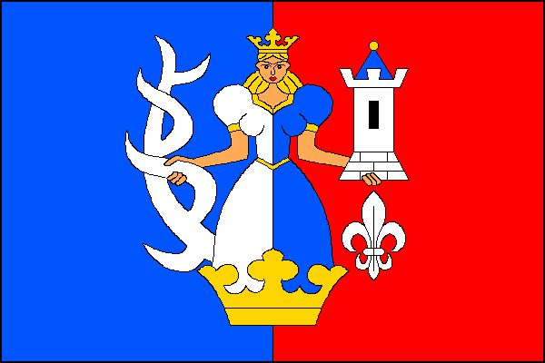 Municipal flag of Chotyně village, Liberec District, Czech Republic.